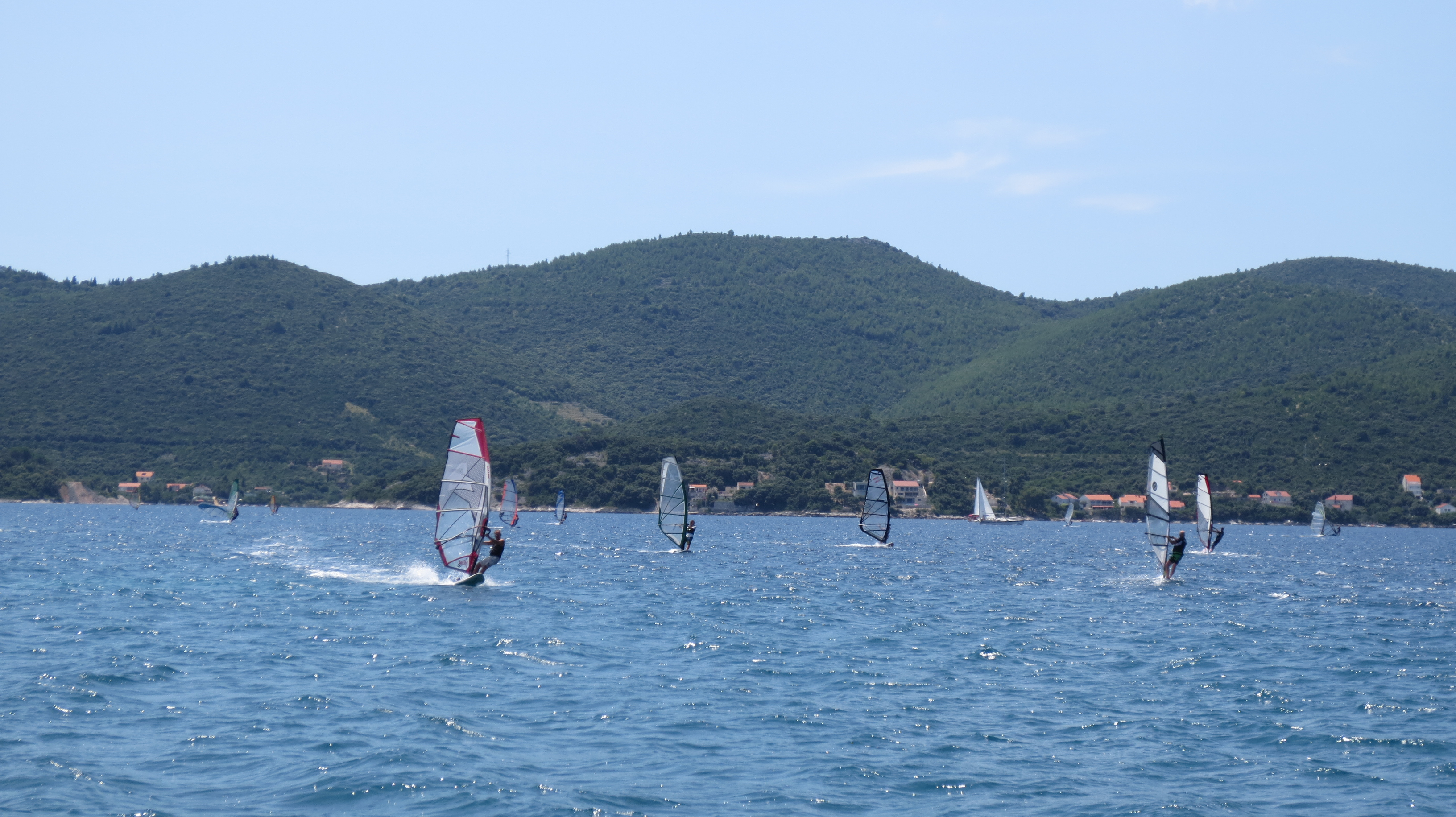 Surfing in Viganj